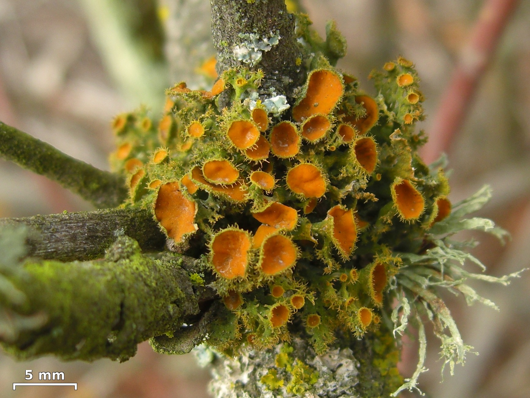 Teloschistes chrysophthalmus. Piuma Ridge, Santa Monica Mts, southern California